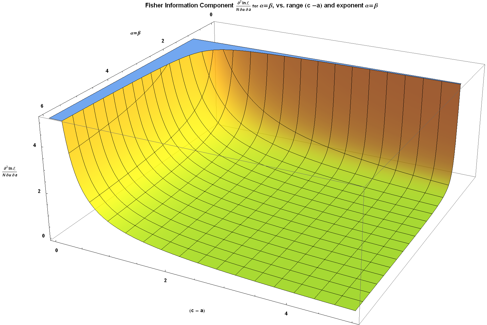 Fisher Information I(alpha,a) for alpha=beta, vs. range (c - a) and exponent alpha=beta - J. Rodal